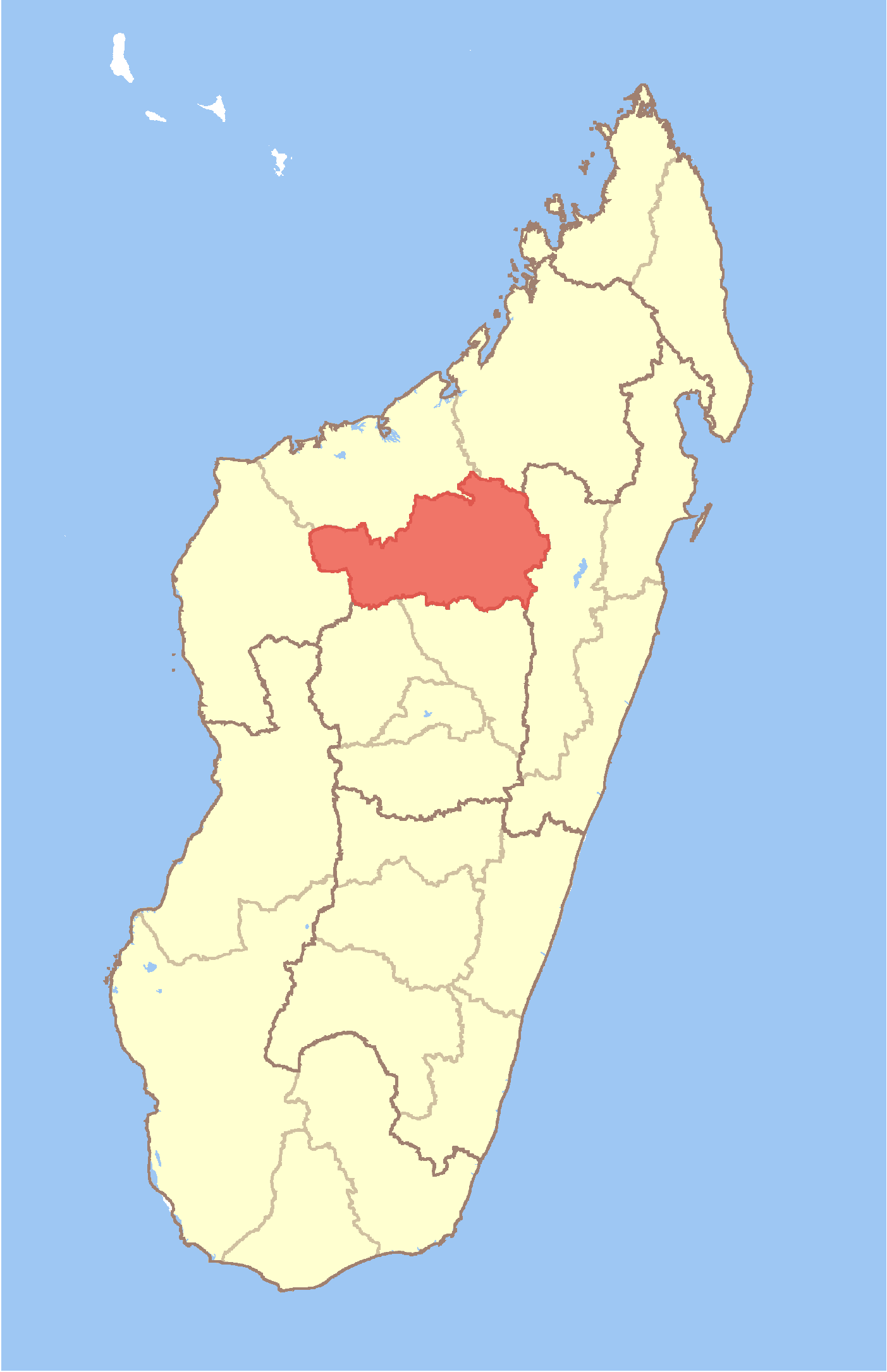 Map of Madagascar with Botsiboka Region highlighted